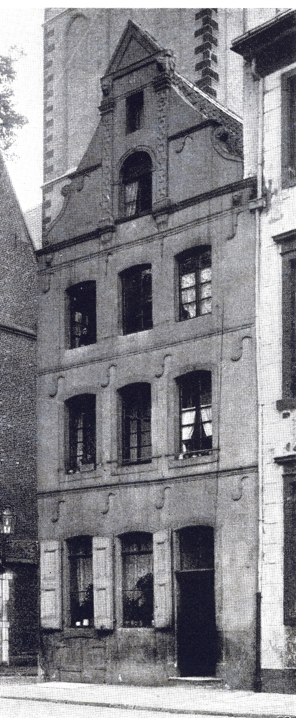 t